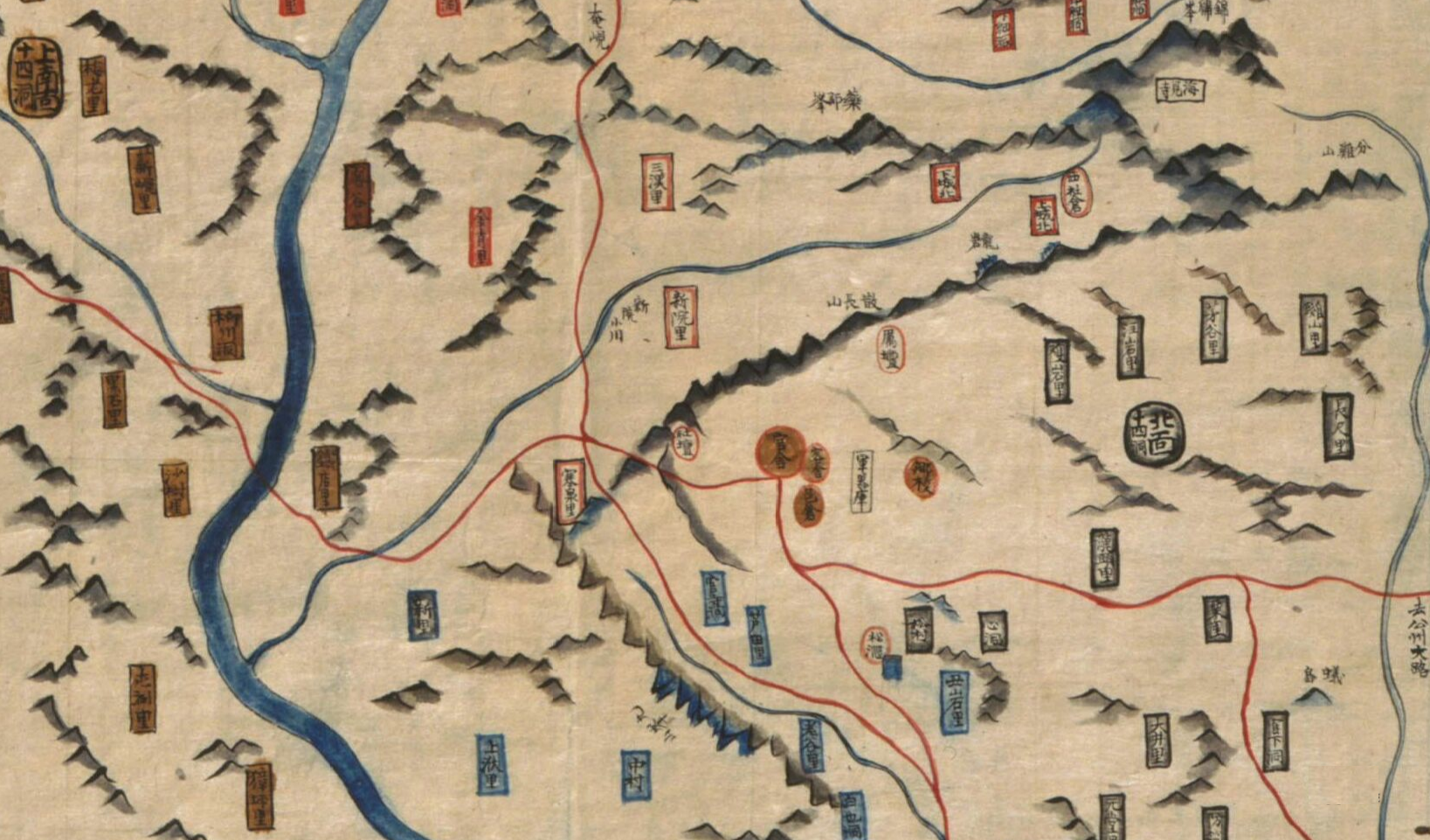 Map of Jinjam area in Daejeon, South Korea